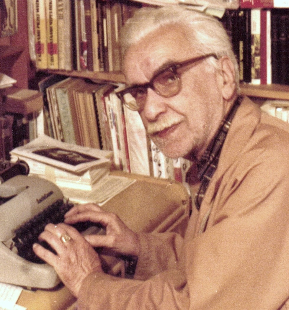 Stepan Popel, Ukrainian-American chess champion